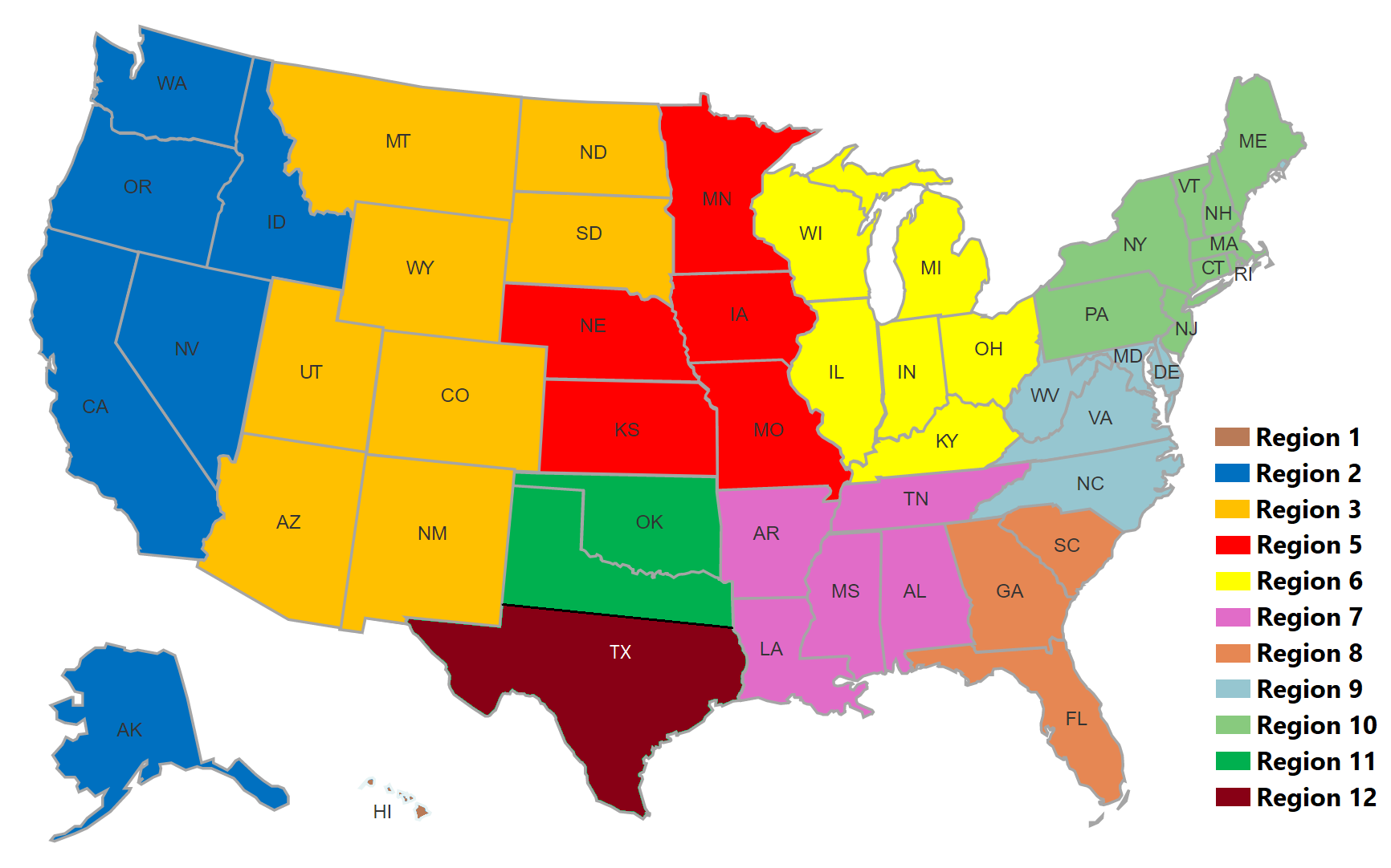 A photo of NCFCA regions, with a legend denoting each region by color.